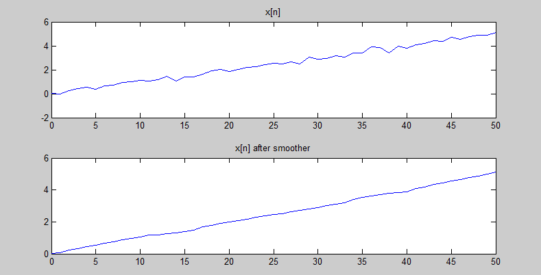 smoother example